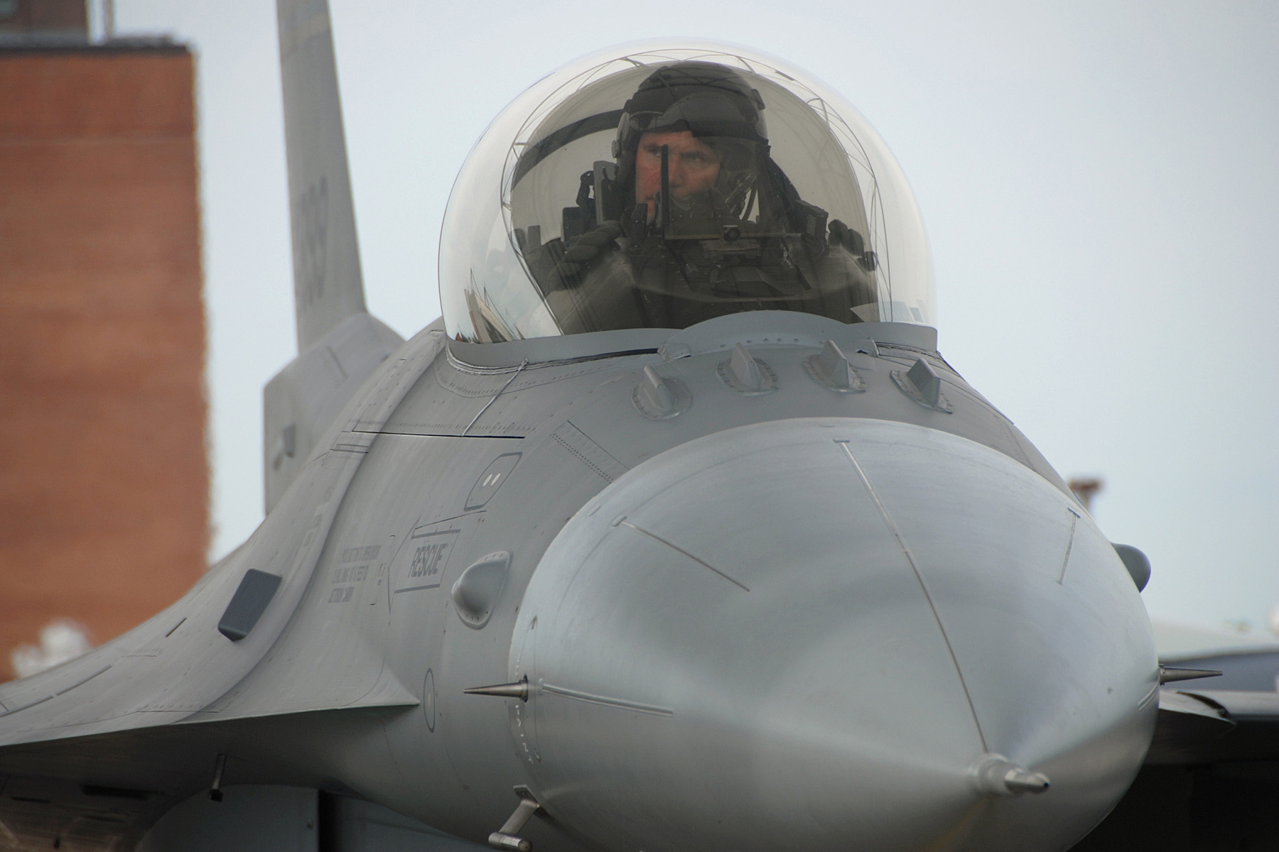 A U.S. Air Force Airman from the 169th Fighter Wing conducts post flight tasks in an F-16 Fighting Falcon aircraft during a phase II operational readiness evaluation at McEntire Joint National Guard Base, S.C., April 12, 2008. The evaluation tests a unit's ability to launch missions while in a chemical warfare environment. (U.S. Air Force photo by Staff Sgt. Caycee Cook) (Released)